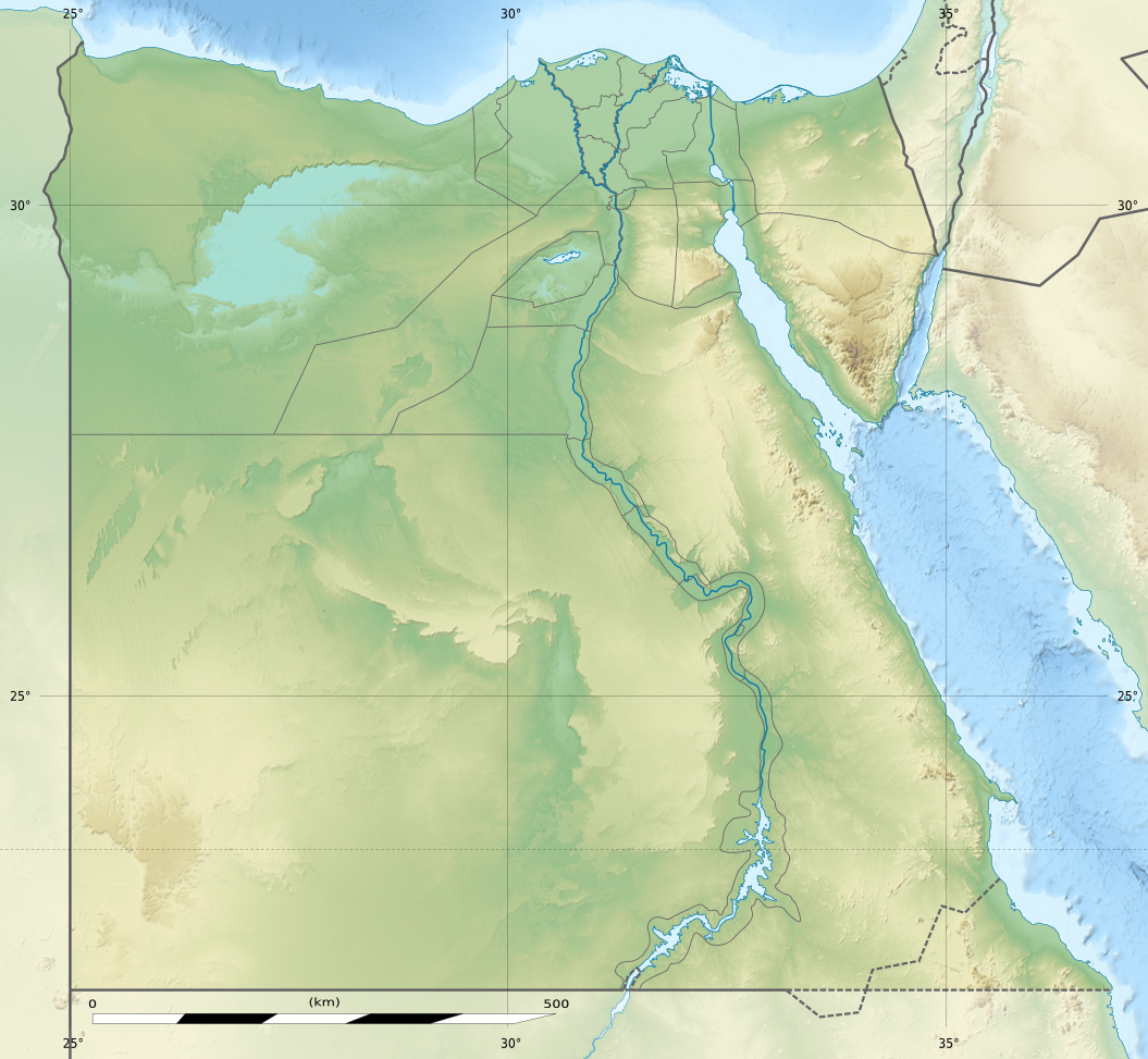 Physical location map of Egypt as it was from April 2008 to April 2011, 14 during the existence of the 6th of October and Helwan Governorates.